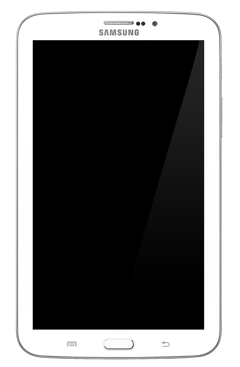 Samsung Galaxy Tab 3 7.0 render